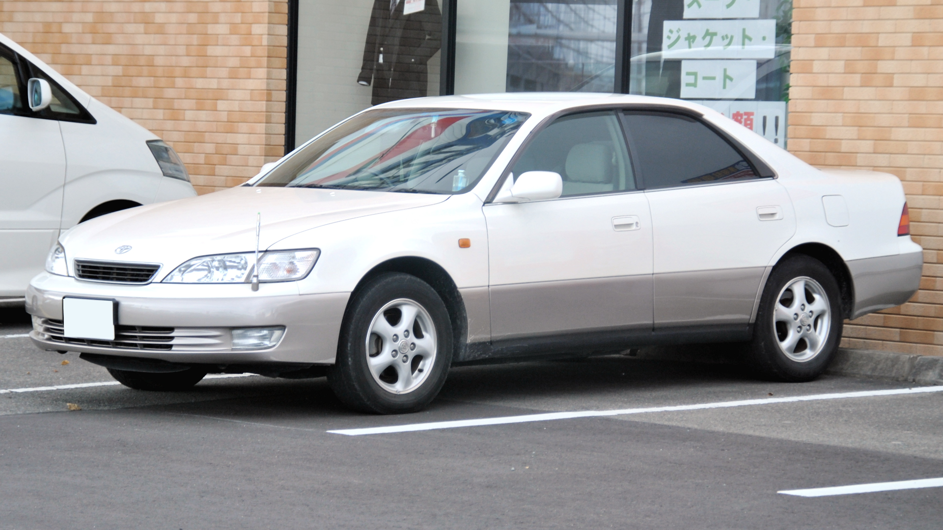 2nd_Generation_Toyota_Windom